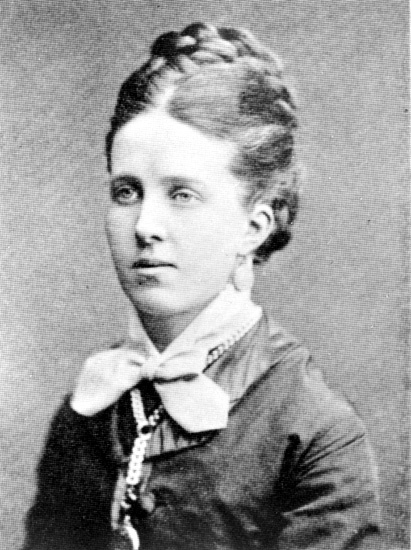 Ebba Björkman (1844-1898), född Björkenheim, gift med brukspatronen och politikern Axel Fredrik Björkman (1833-1886), paret bosatta i Järfälla på Görvälns slott.